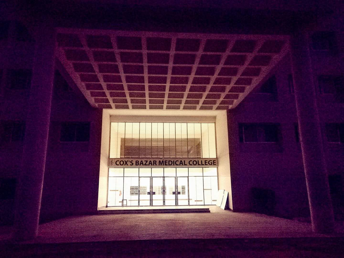 Entrance of Cox's Bazar Medical College at Night captured by Tazul Islam